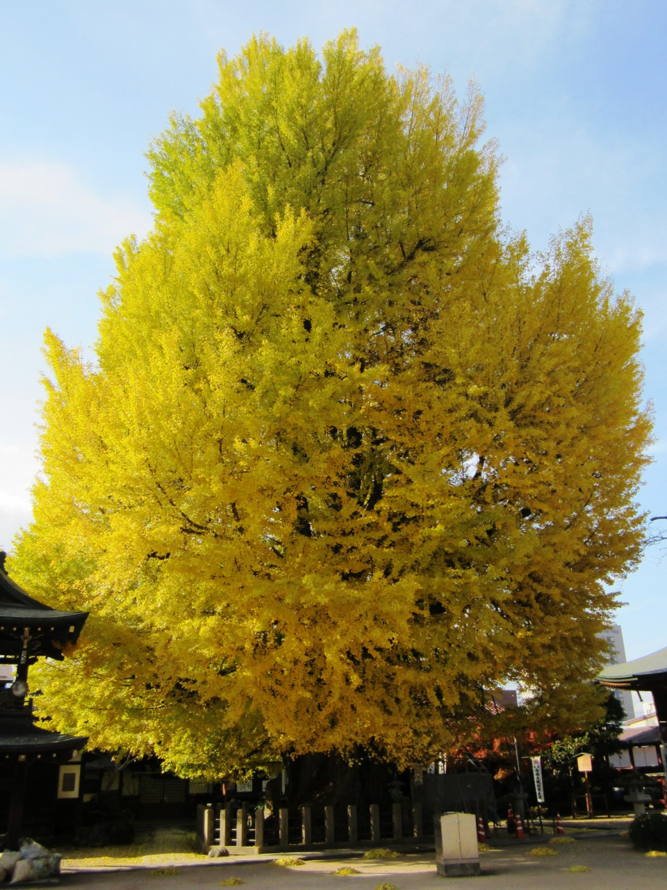 Hida-kokubunji no Ōichō (Great Ginkgo biloba tree of Hida-kokubunji), Hida-kokubunji, Takayama city, Gifu pref., Japan.